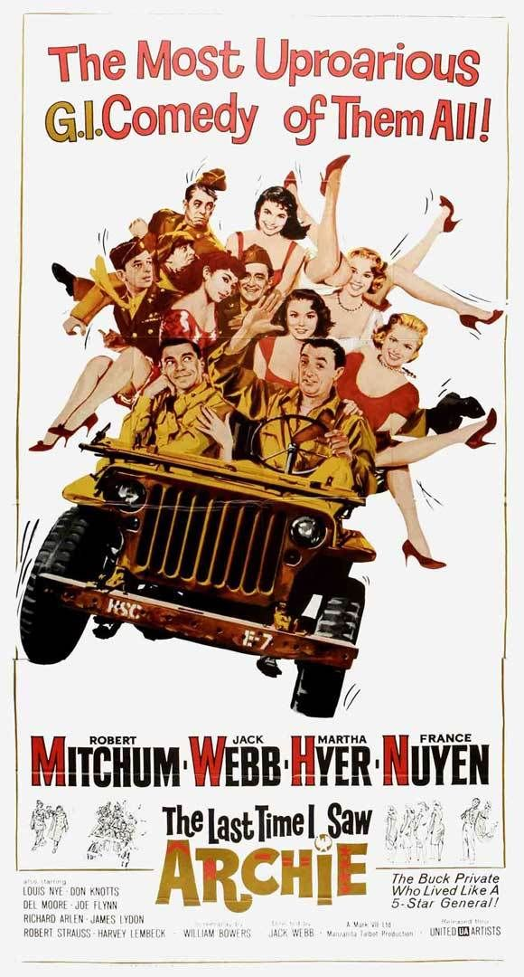 Poster for the 1961 film The Last Time I Saw Archie. A search was done at for "The Last Time I Saw Archie". There were no listings for anything with this title--there's no evidence of continued copyright for the poster.